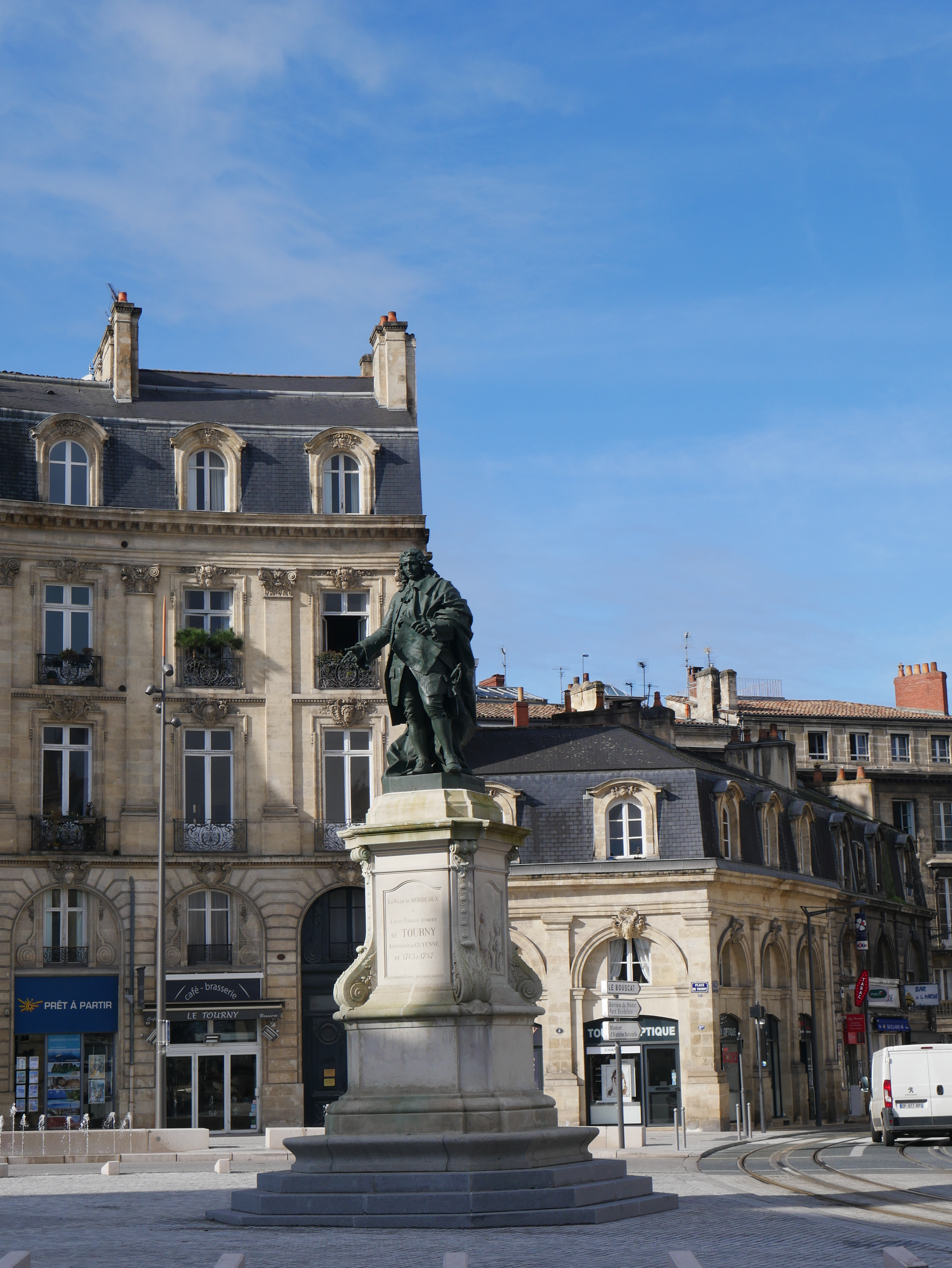 Statue of Louis-Urbain-Aubert de Tourny